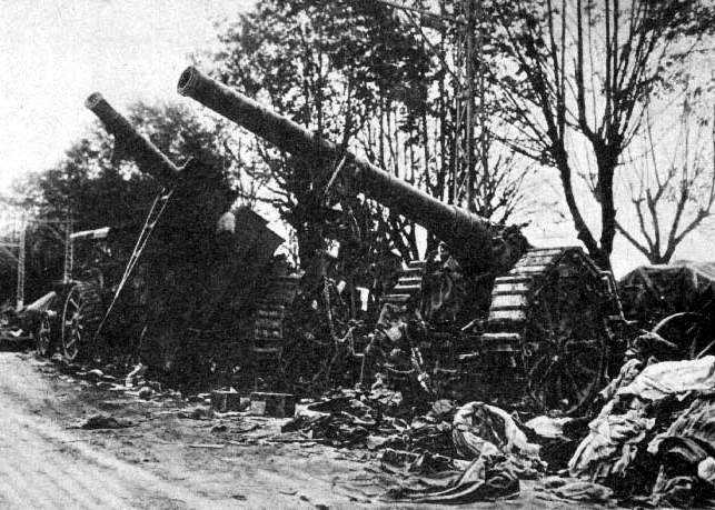 captured italian artillery pieces 1917.